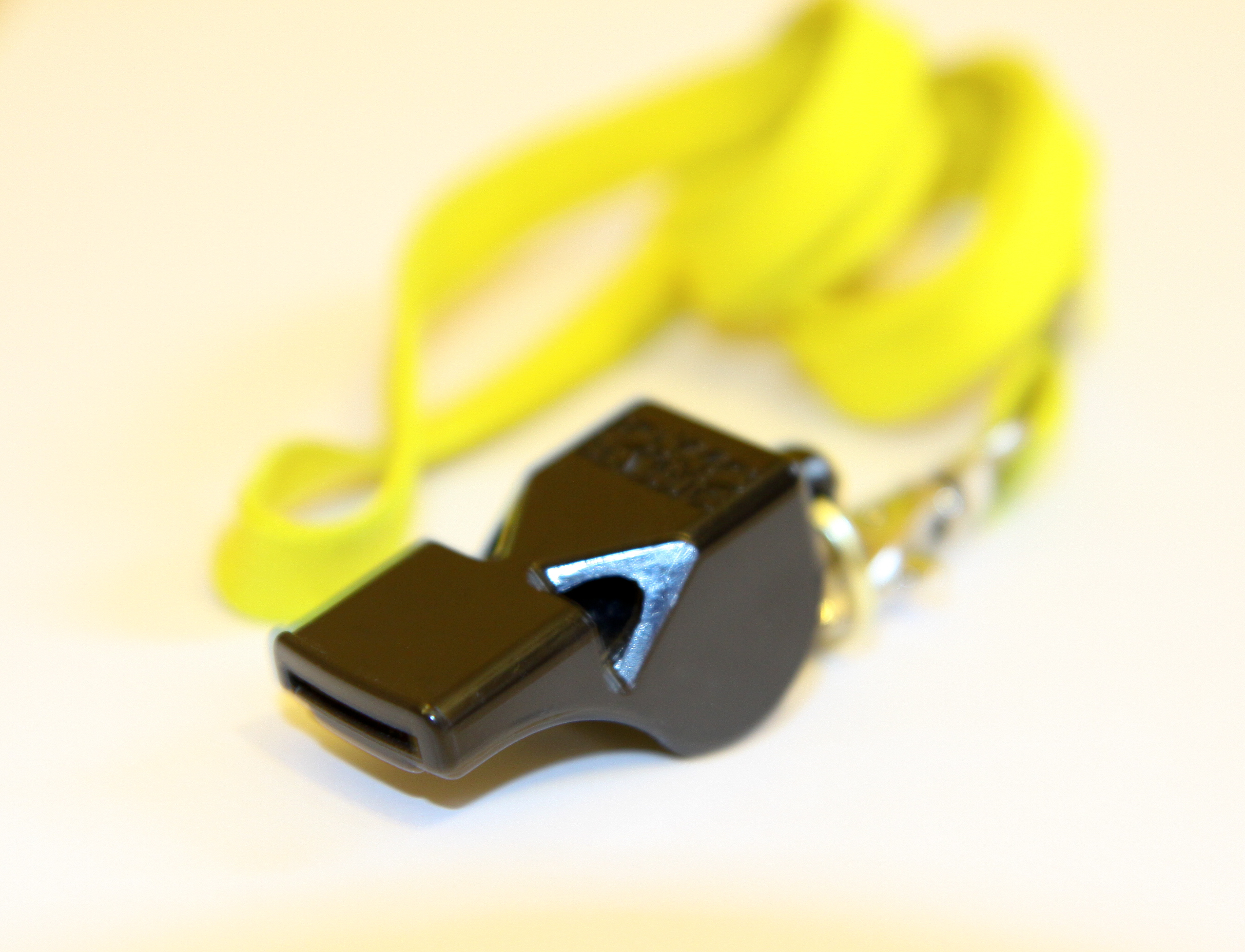 Fox 40 black whistle - bought in 2010